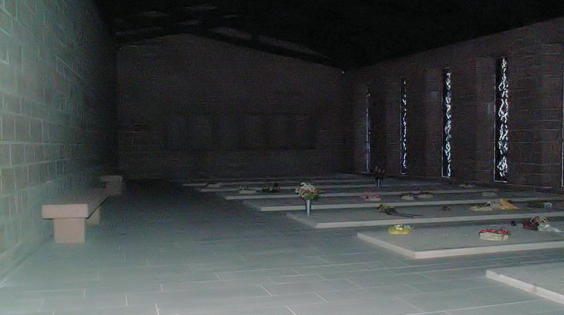 German Soldiers cemetery near Rovaniemi, Finland from WWII